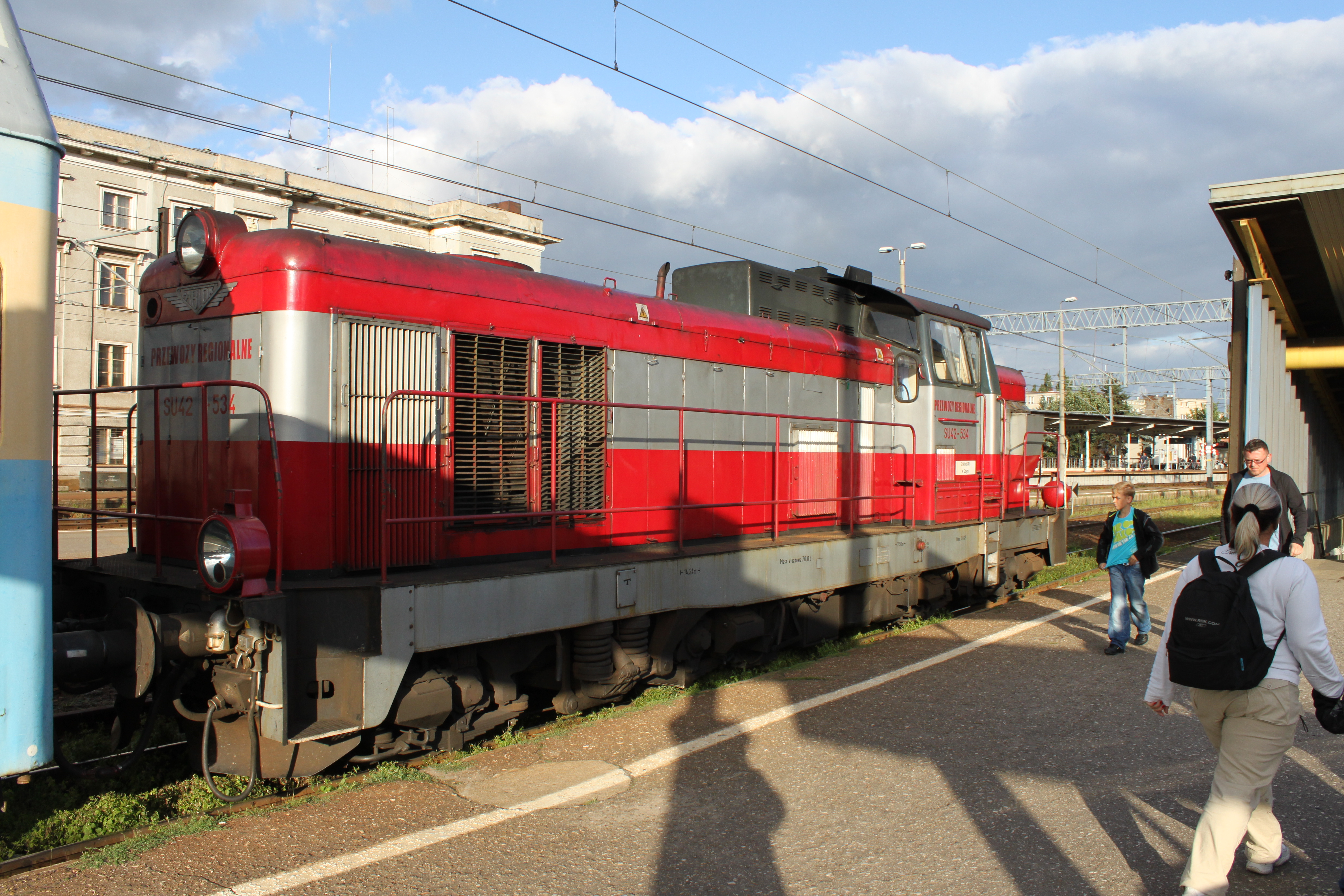 SU42-534, Gdynia Główna trains station, Gdynia, Poland.